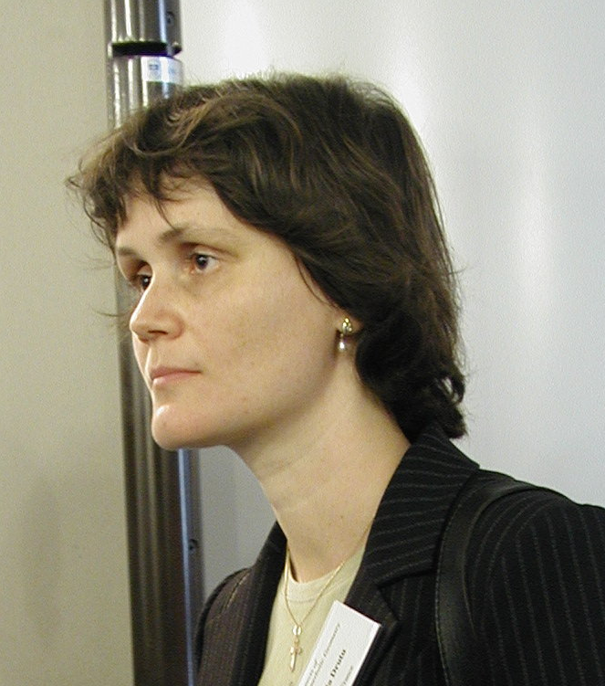 Depicted person: Cornelia Druțu – Romanian mathematician